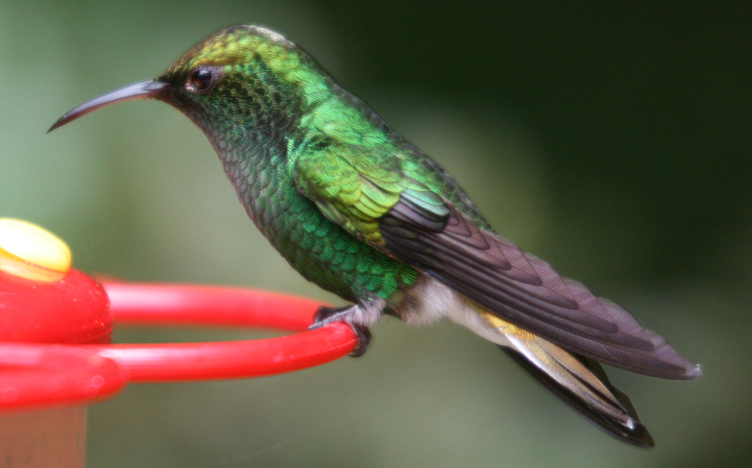 Male Coppery-headed Emerald at feeder, Hummingbird Gallery, Monteverde, Costa Rica